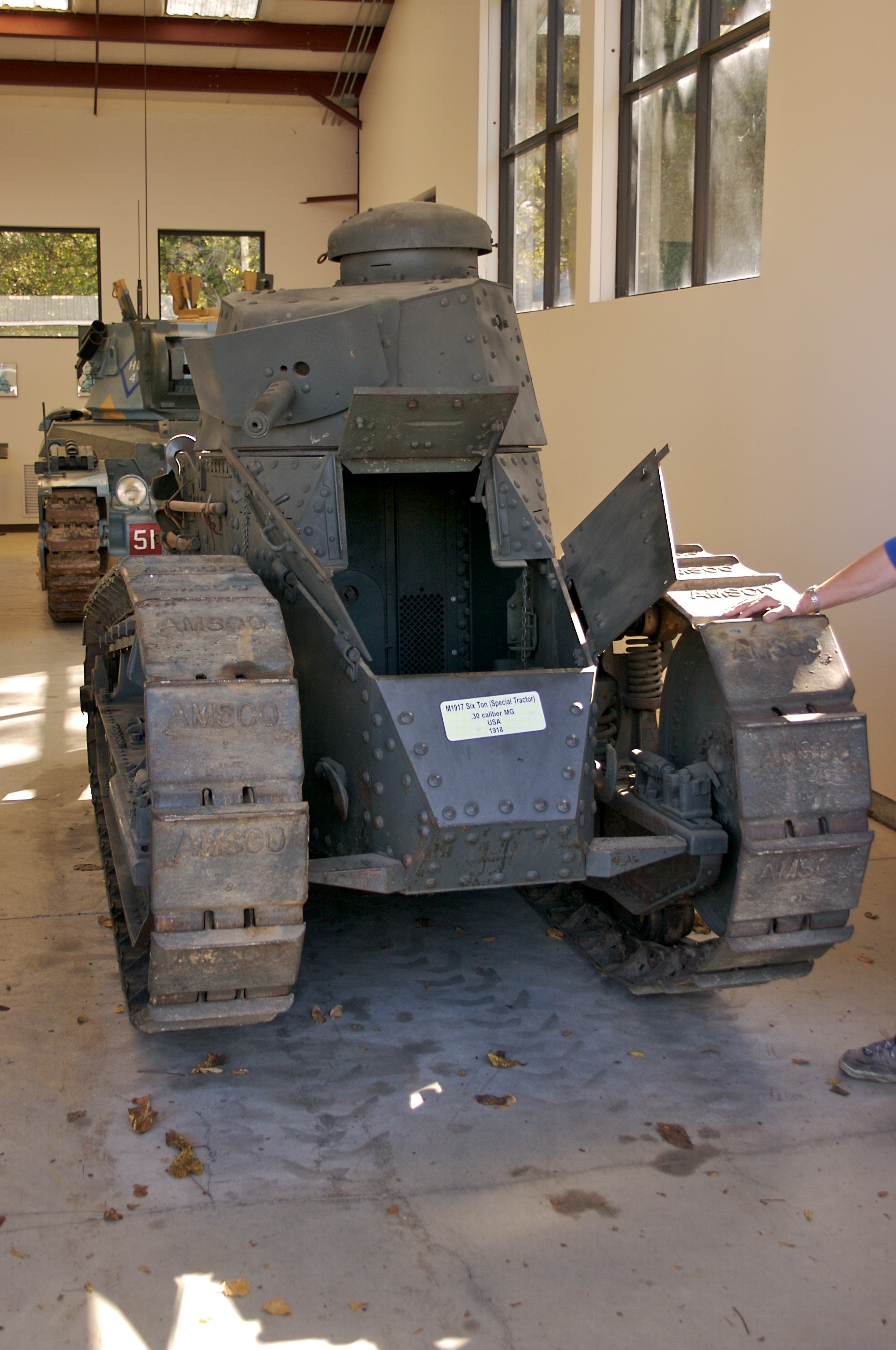 US Six Ton Tank Model 1917, an American copy of the Renault FT-17.